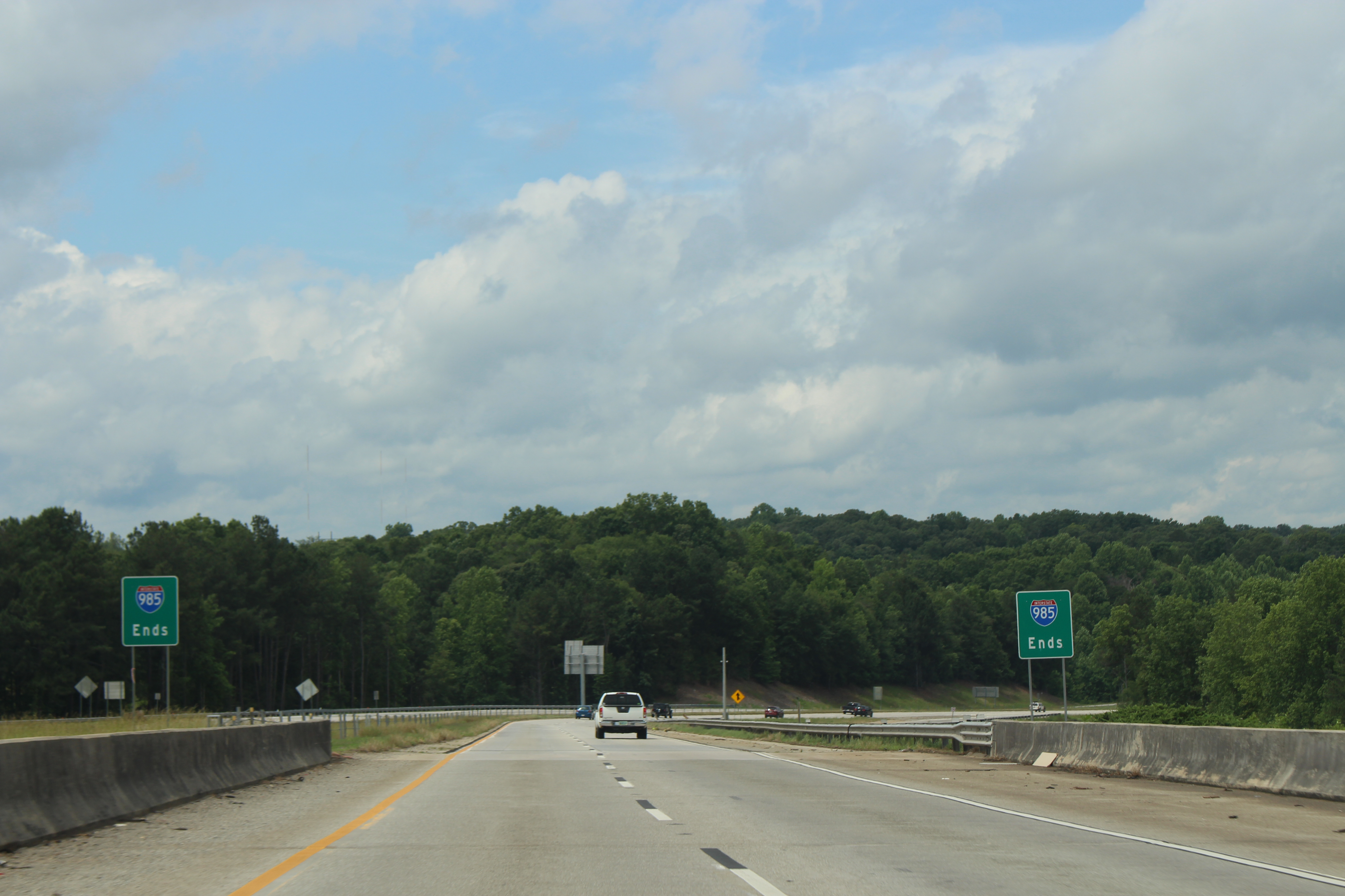 GA365 US23 NB Traffic Light .5 mile ahead, Hall County, Georgia